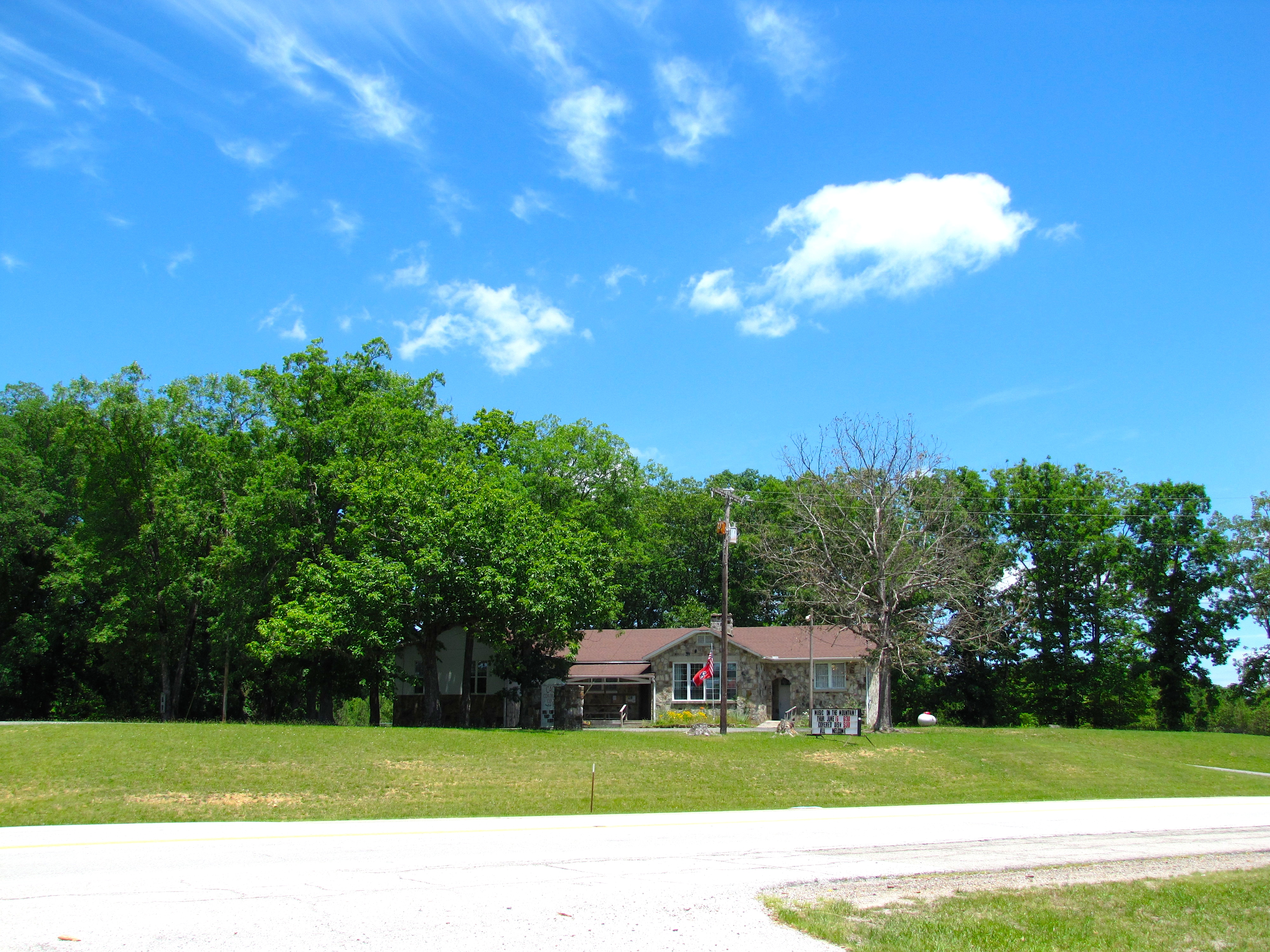 The Cagle Community Center in the Cagle Mountain area of western Sequatchie County, Tennessee, United States. State Route 111 is in the foreground.